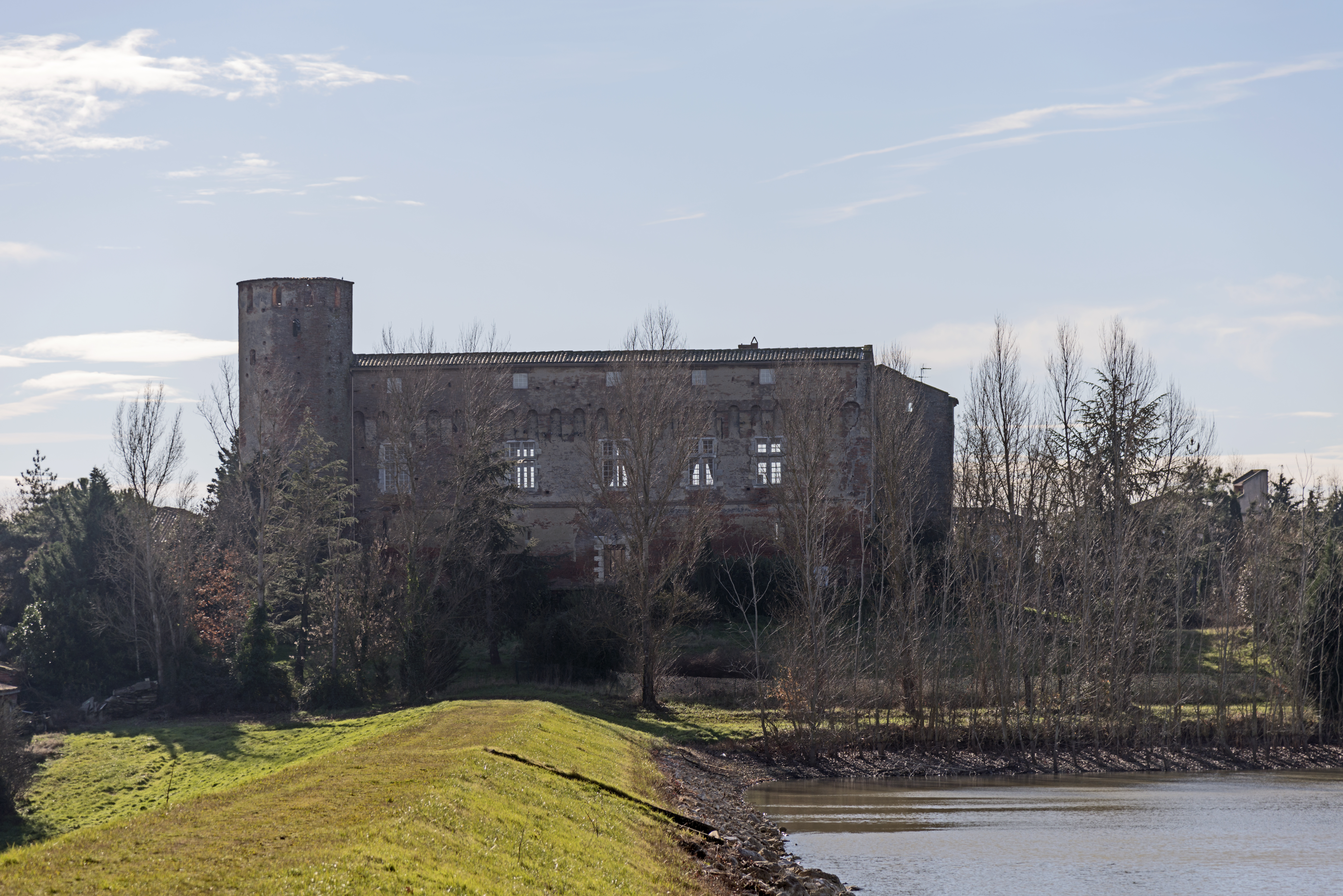 Launac, Haute-Garonne, France. The castel.